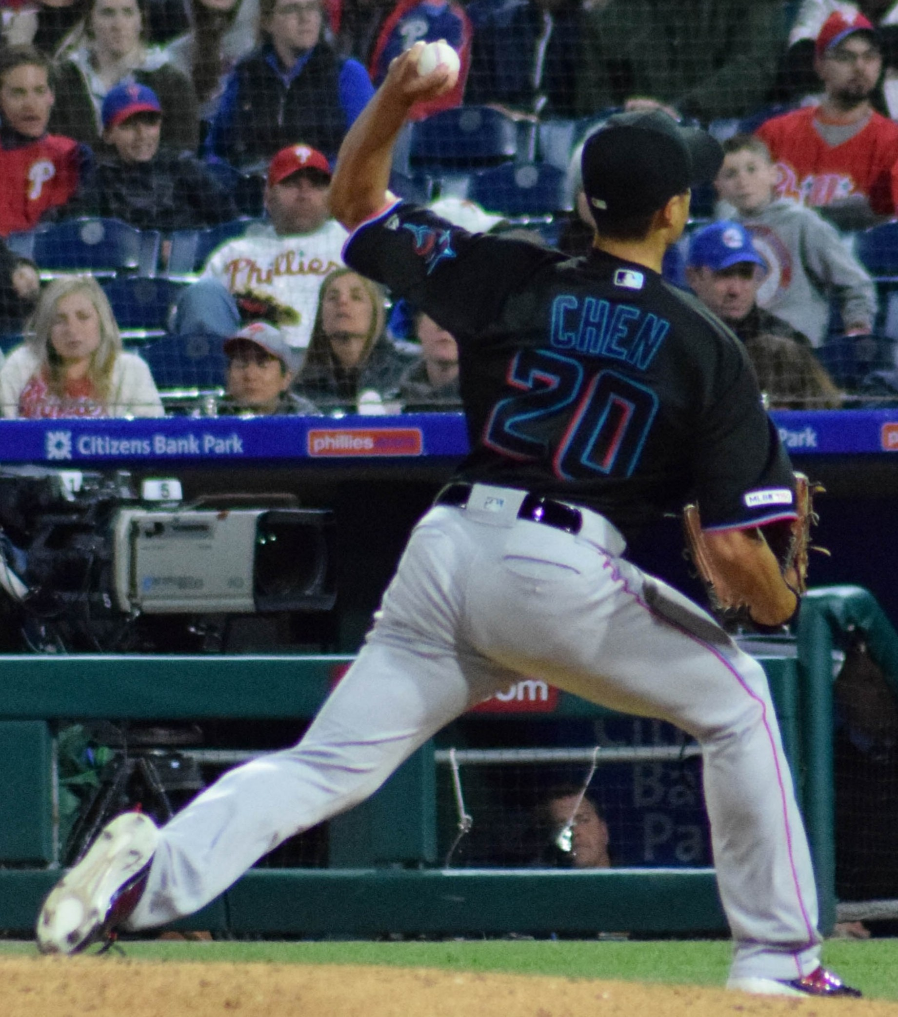 Wei Yin Chen 2019